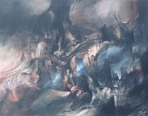 1 Painting Visita al infiero (Visit to hell) by Mauricio García Vega